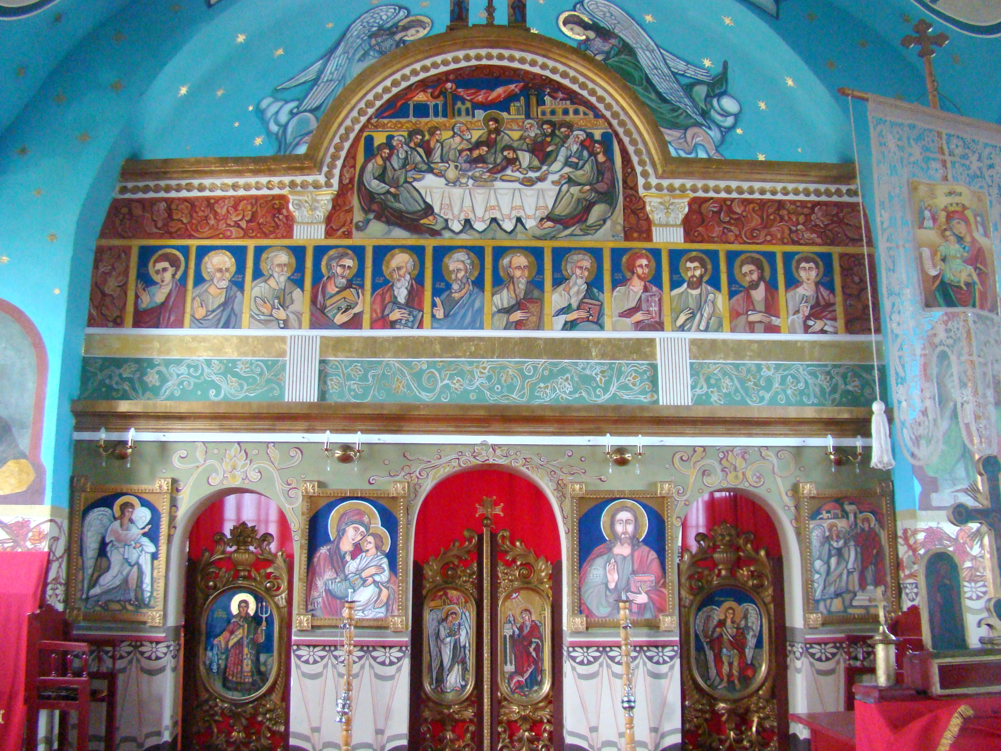 Church of the Annunciation in Ormindea, Hunedoara county, Romania